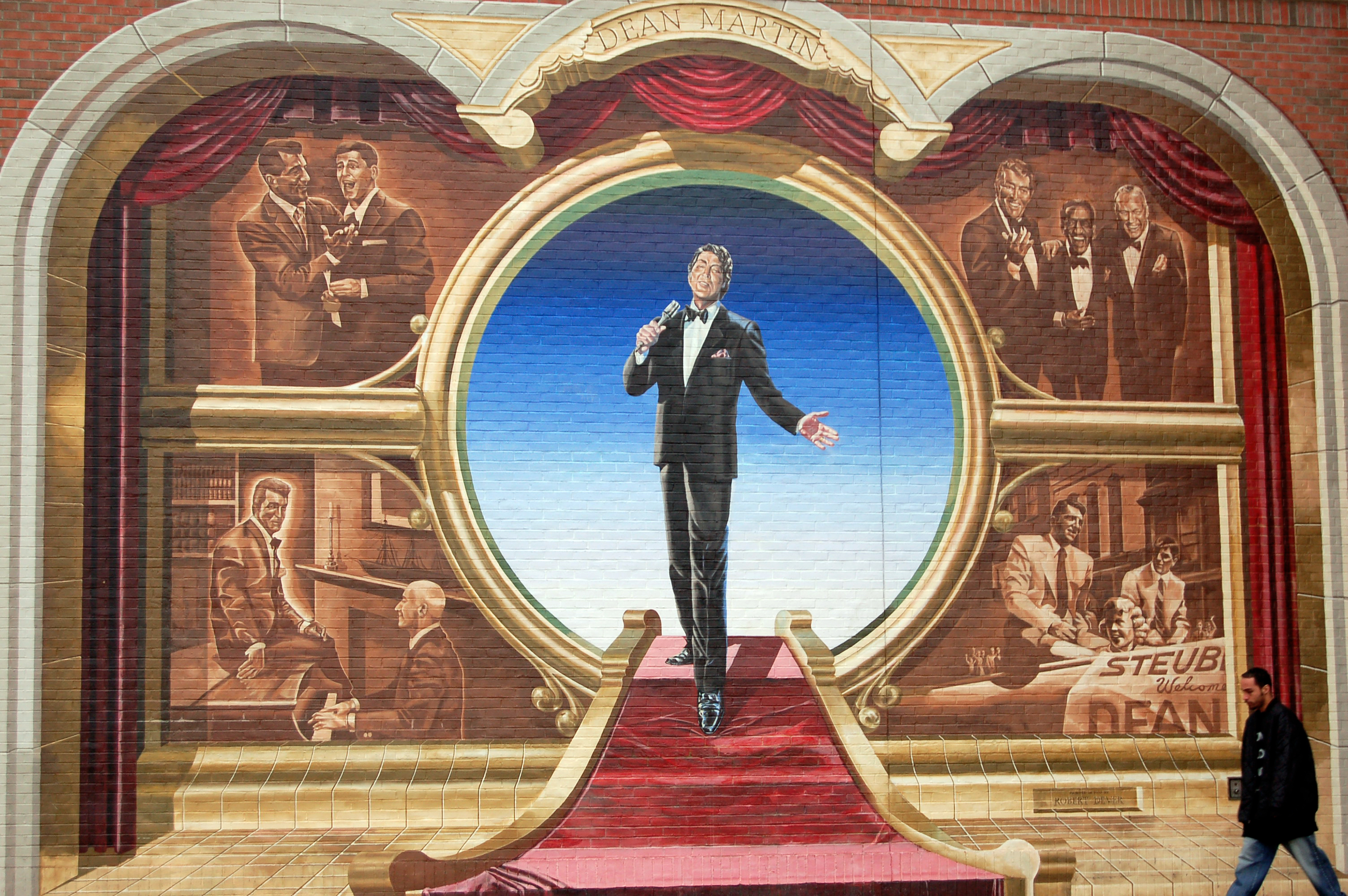 A mural of Dean Martin (1917-1995) in his birthplace, Steubenville, Ohio, United States